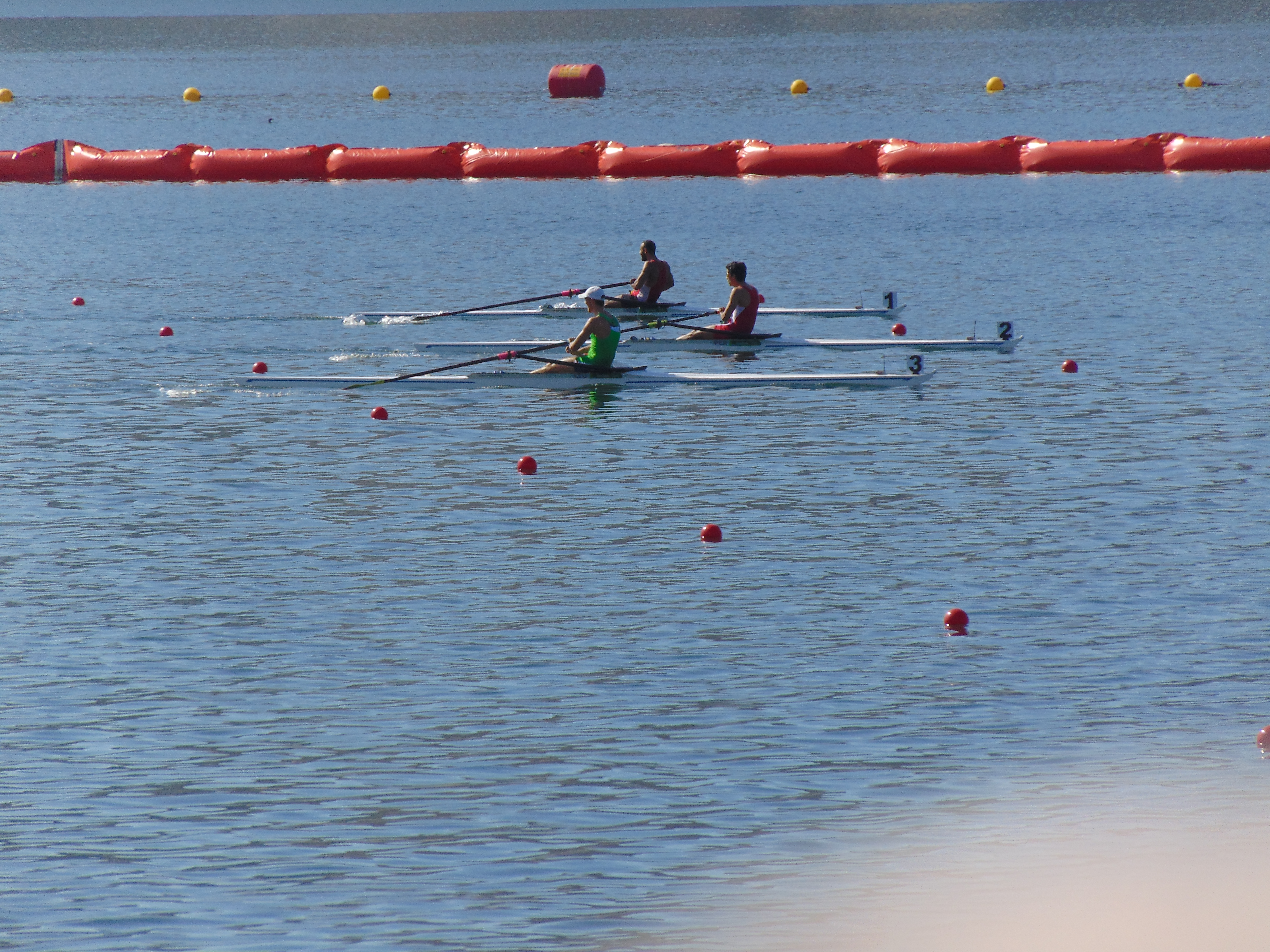 Rio 2016 - Rowing 8 August